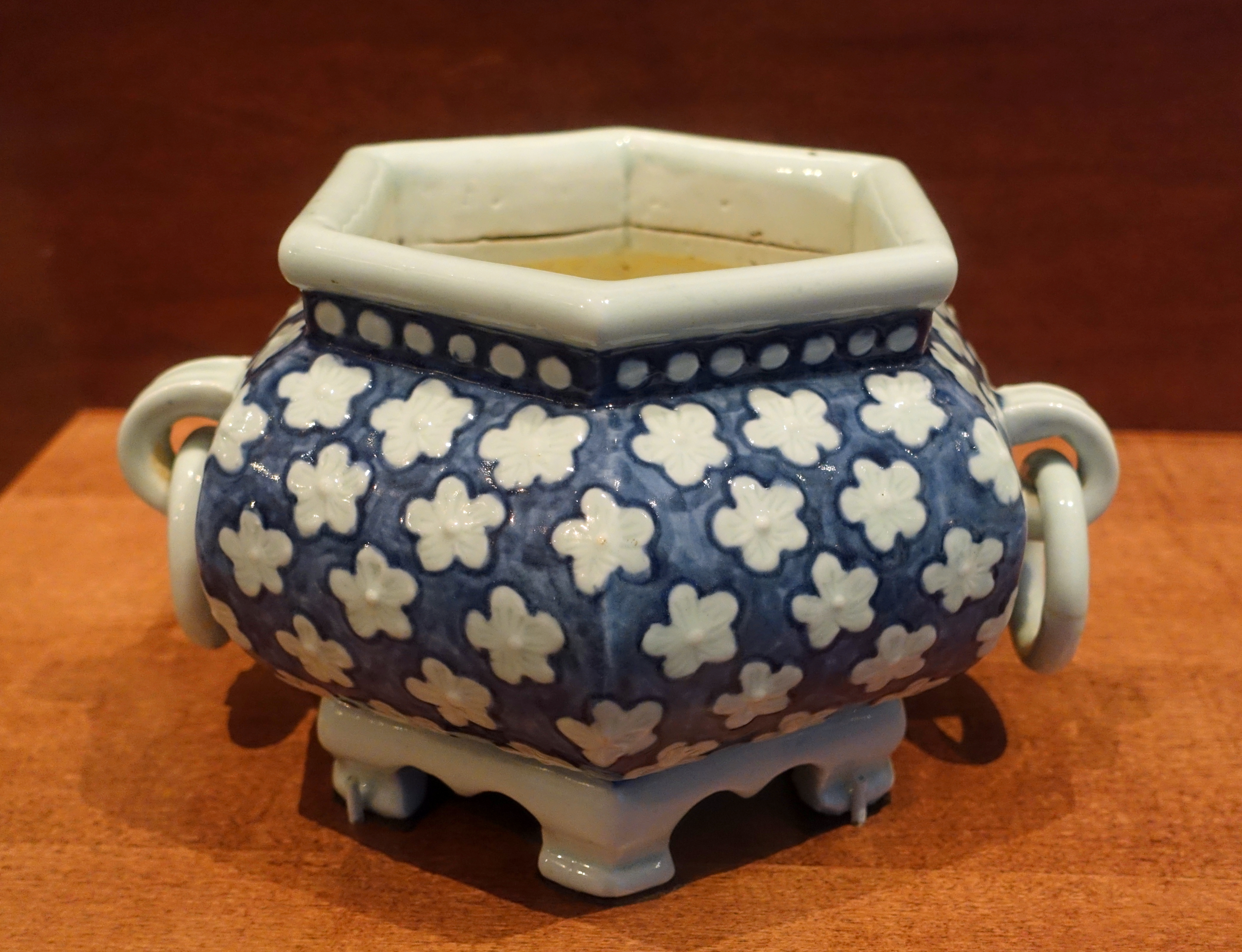 Exhibit in the National Museum of Natural History, Washington, DC, USA. This artwork is in the public domain because the artist died more than 70 years ago.